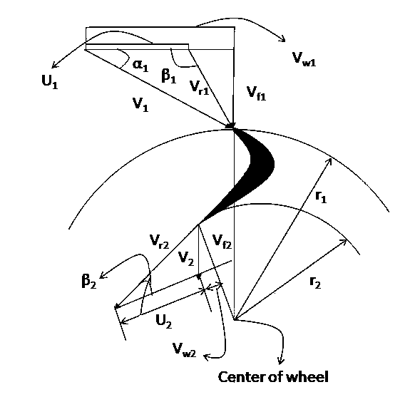 the diagram shows the actual velocity diagram and it can be clearly seen that in the actual diagram the whirl component of outlet velocity in non zero.